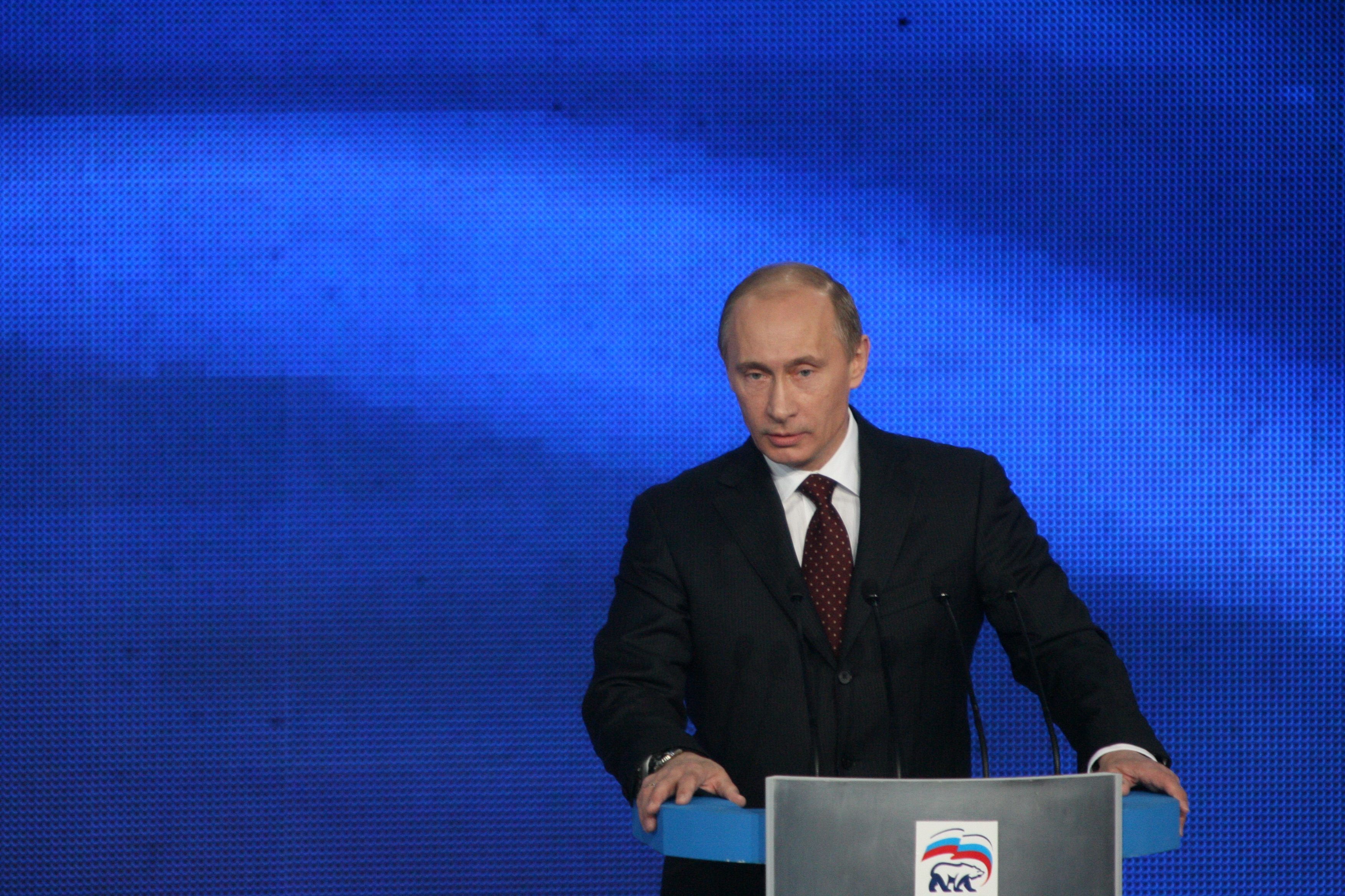 Владимир Путин на XI съезде "Единой России"